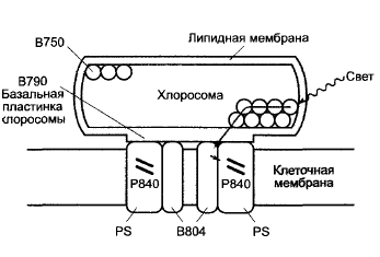 Chlorosome